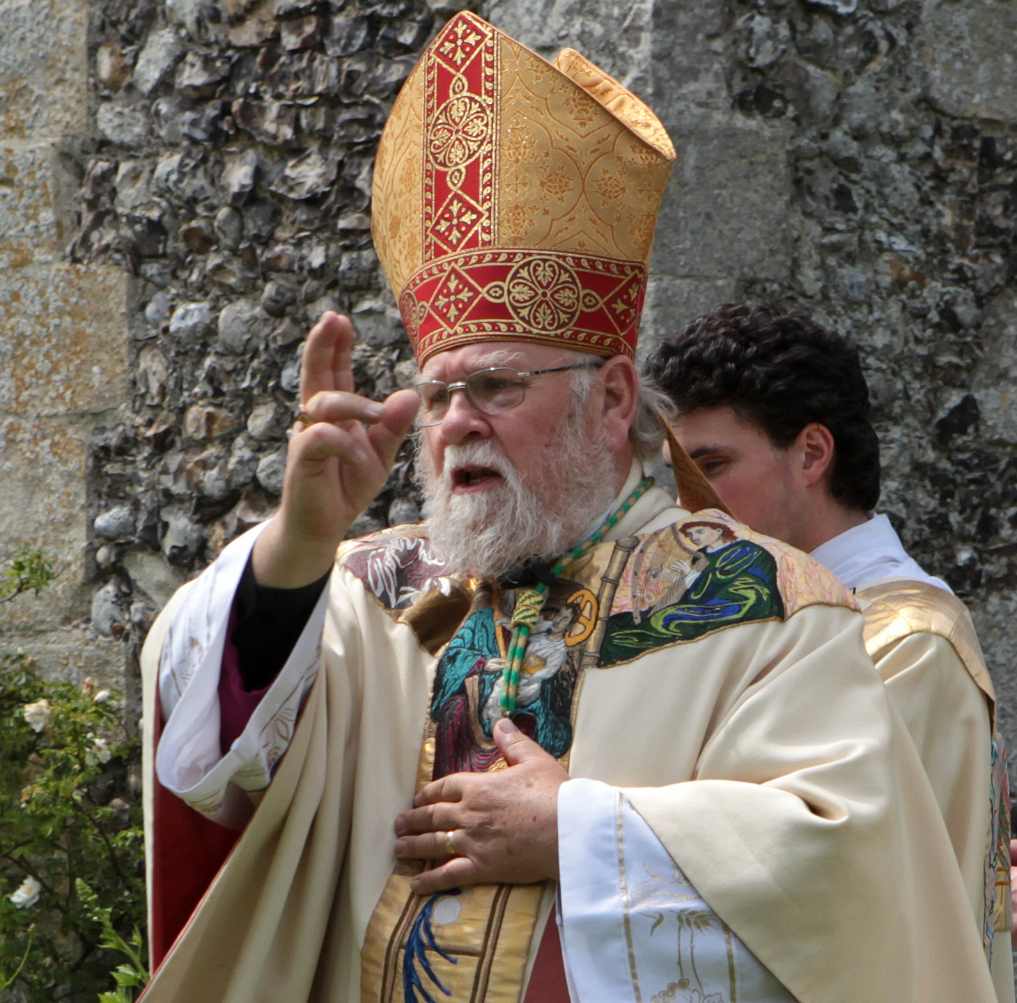 The Right Revd John Goddard during the National Pilgrimage to Walsingham, 2014